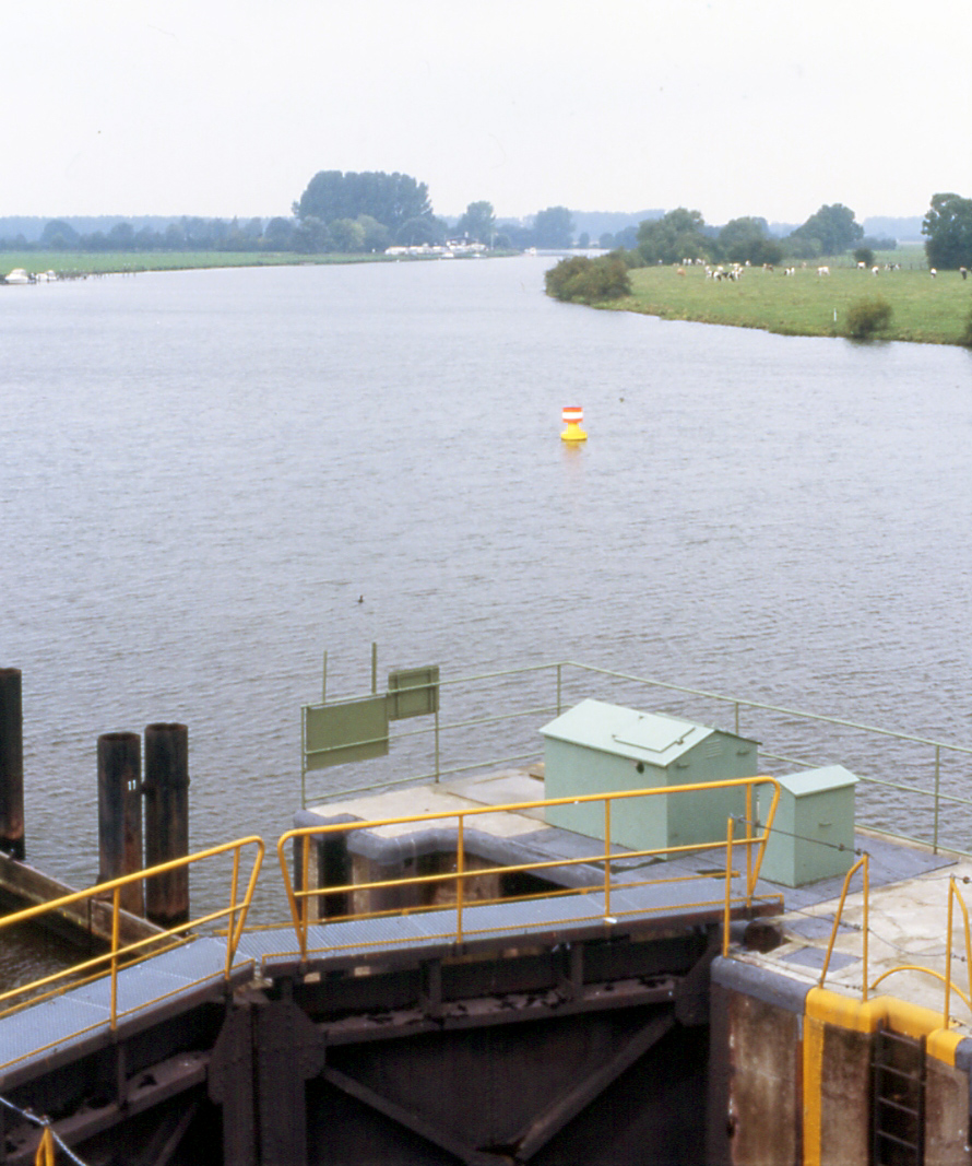 River Weser in the lowland, view from the bridge upon the weir at Drakenburg